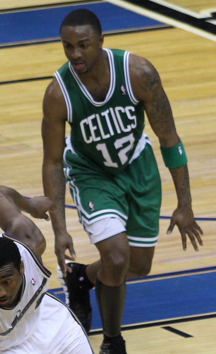 Boston Celtics v/s Washington Wizards April 11, 2011